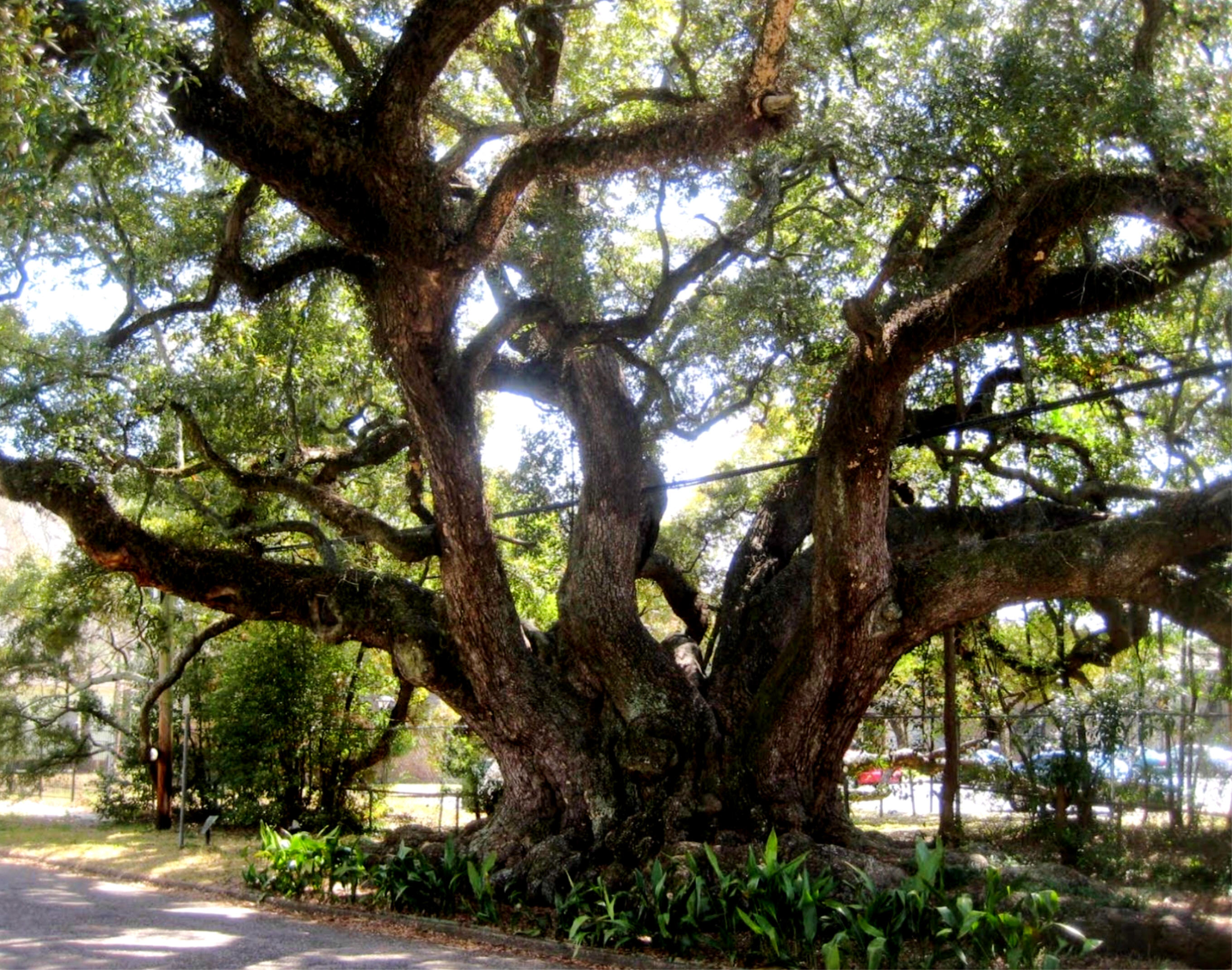 The Duffie Oak at 1127 Caroline Avenue in Mobile, Alabama.